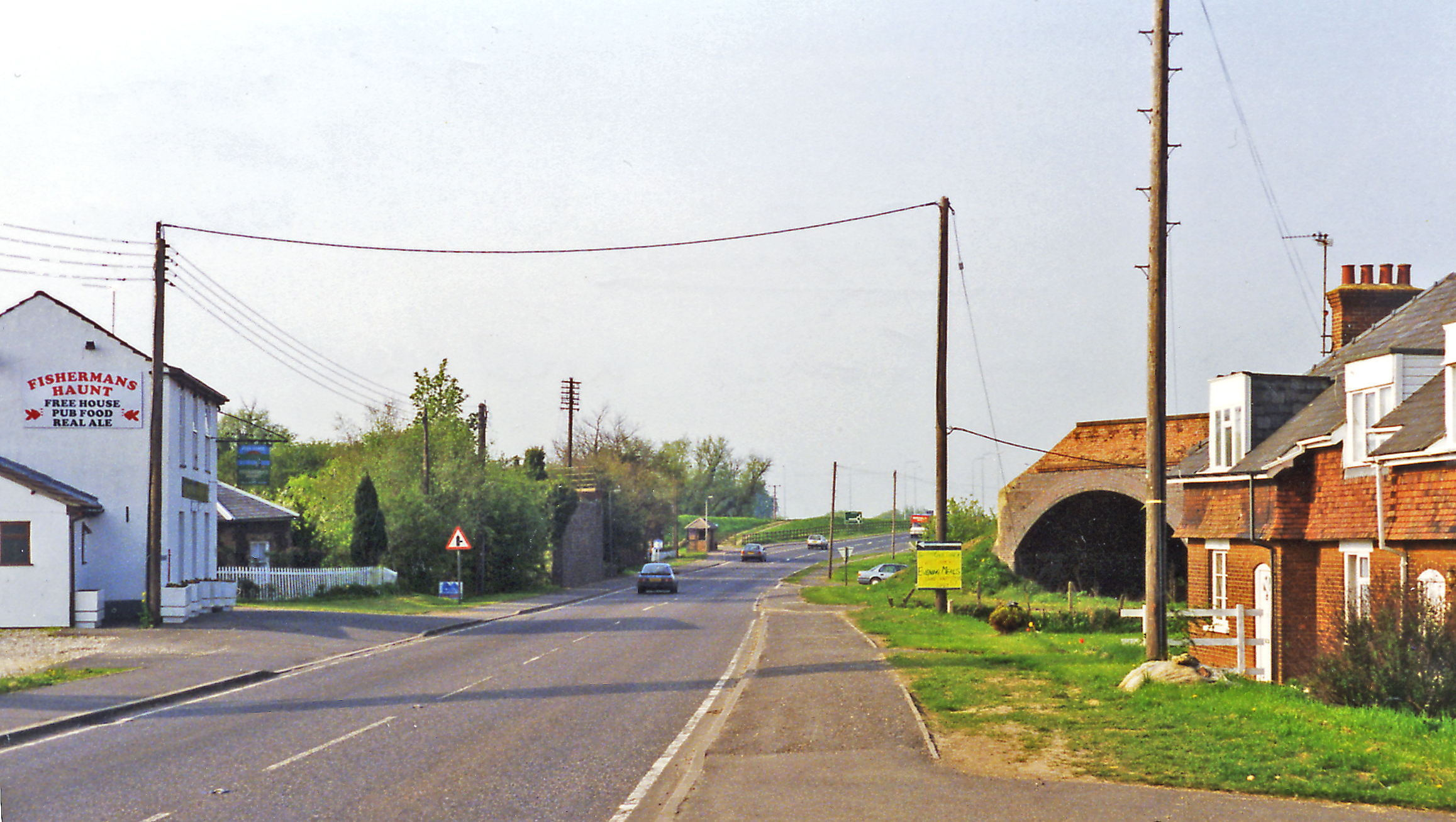 Site of Guyhirne station, 1995. View northward, on the A141 towards Spalding and approaching the junction with the A47. Just ahead on the right is the remains of the substantial brick viaduct which until closed 28/11/82 carried the March (to right) - (to left) Spalding section of the ex-GN&GE Joint main line to Doncaster via Sleaford and Lincoln. The station was on the left, by the 'Fisherman's Haunt'; it closed to passengers 5/10/53, to goods 5/10/64.